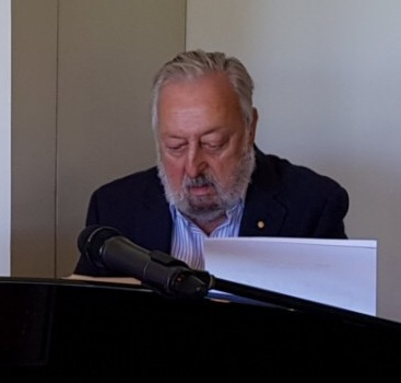 Geoff Harvey playing piano at the Gibraltar Hotel, Bowral on Christmas Day 2018